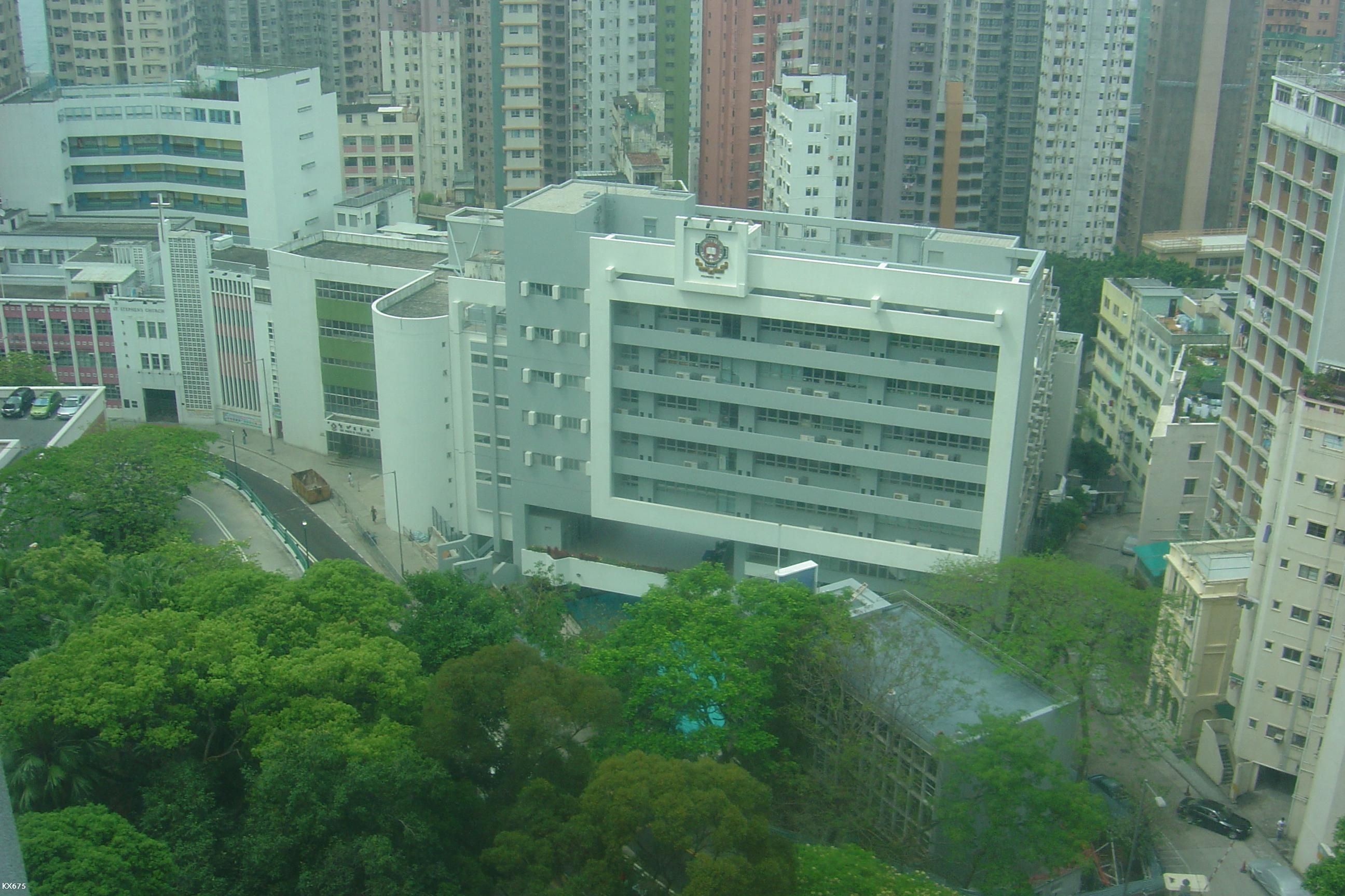 The Stewart Building (green building on the left), New South Wing (grey building in the centre) and Wong Ming Him Hall (the short building in front of South Wing) of, as viewed from the Knowles Buildling of the University of Hong Kong. 中文（香港）: 由香港大學鈕魯詩樓眺望聖保羅書院的史超域樓（左面的綠色建築物）、新南翼大樓（中央灰色大樓）及黃鳴謙堂（新南翼大樓前的低層建築物）。